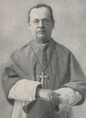 Jakob Trobec (1838-1921), Slovene missionary, bishop and writer. From image: Skof Jakob Trobec (10 Julij 1838 - 10 Julij 1958)